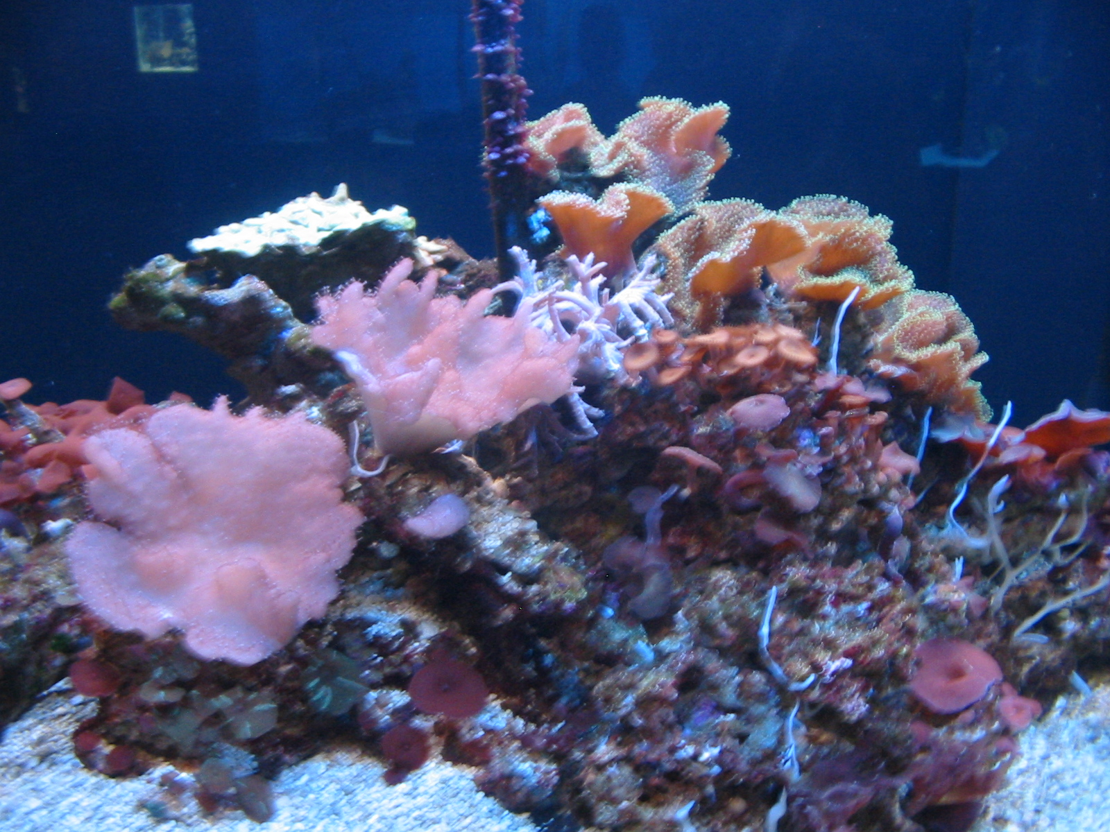 Taken at Mote Marine Laboratory